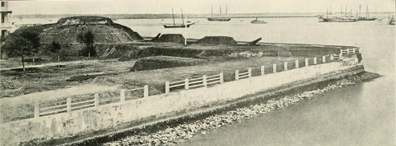 Two ten-inch Columbiads at the South Battery in Charleston. Note: See companion photo File:TenInchColumbiadSouthBatteryCharleston.jpg